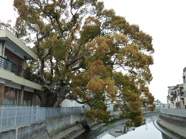 Hiejima no kusu ("Camphor tree in Hiejima") in Kadoma, Osaka, Japan